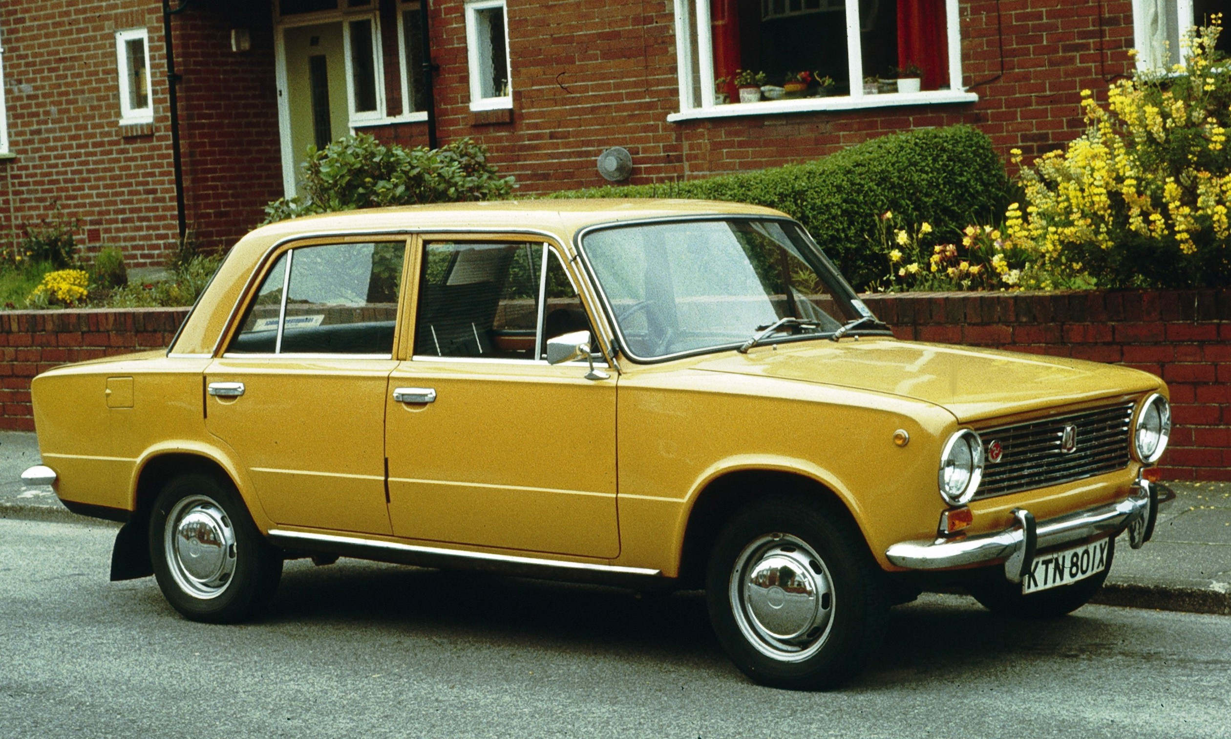 Lada sedan in Cambridge when new in 1981